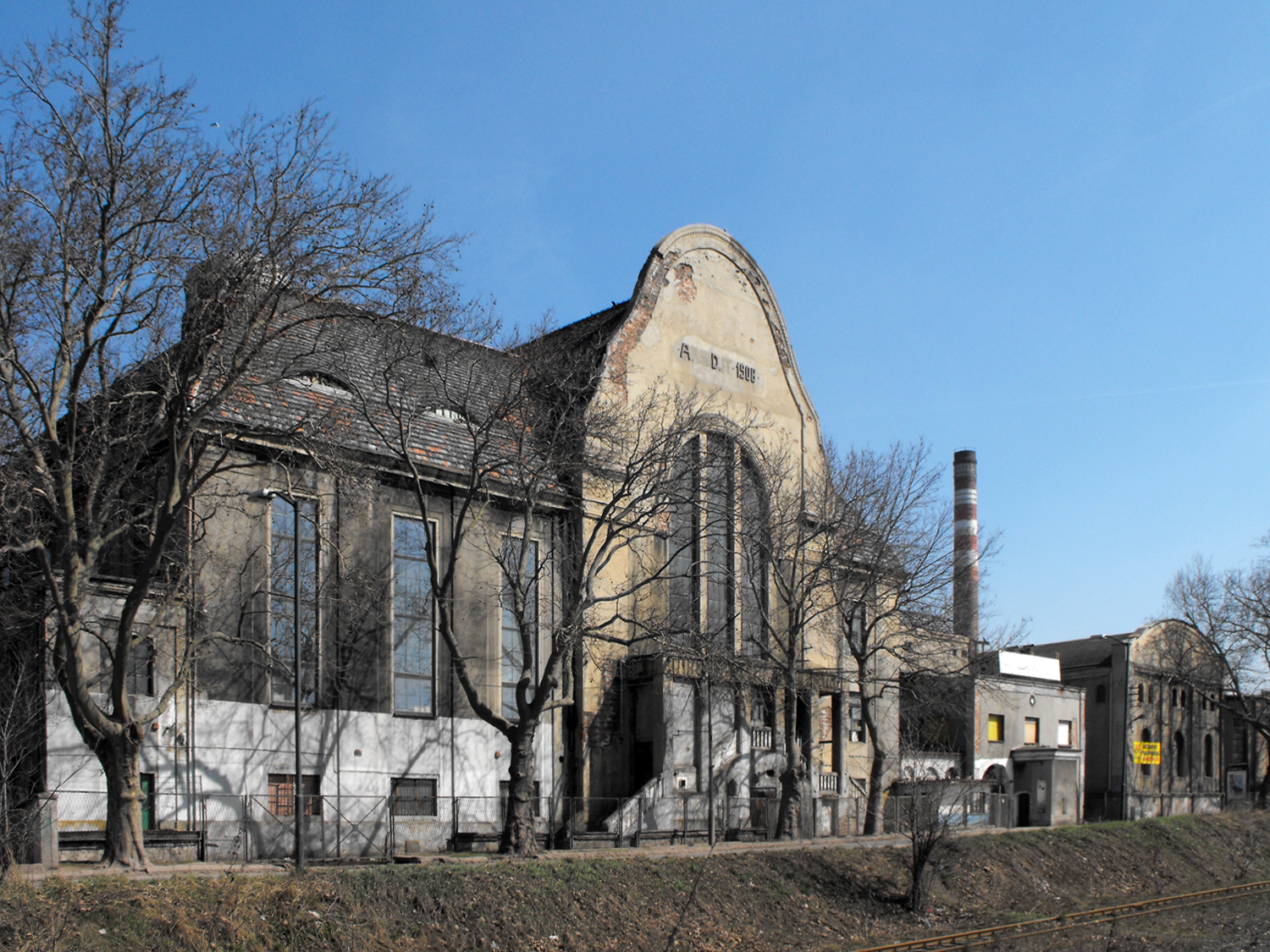 Coal Mine in Mikulczyce